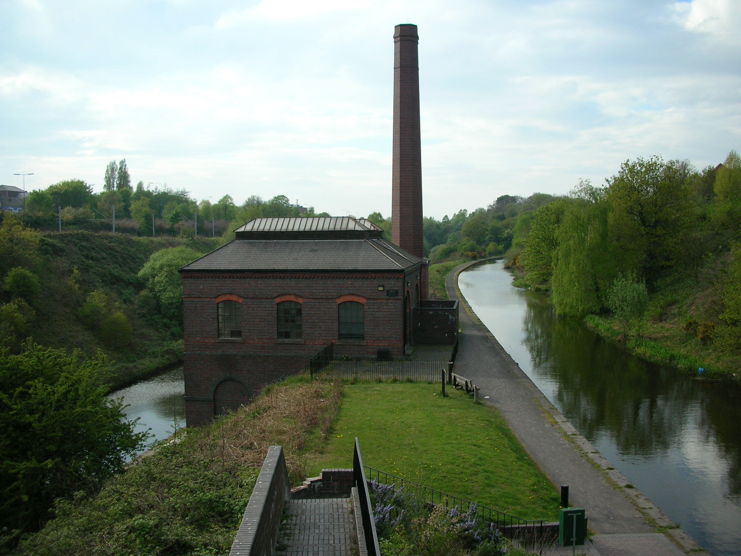 Smethwick New Pumping Station, Brasshouse Lane, Smethwick, West Midlands. The building is between the old and new lines of the BCN Main Line near Brasshouse Lane bridge, Smethwick, West Midlands, England. The engine pumped water from the lower canal (Birmingham Level) to the upper in order to supply the locks at the Smethwick Summit (Wolverhampton Level) of the older canal, replacing the original pumping engine on the corner of Rolfe Street and Bridge Street.